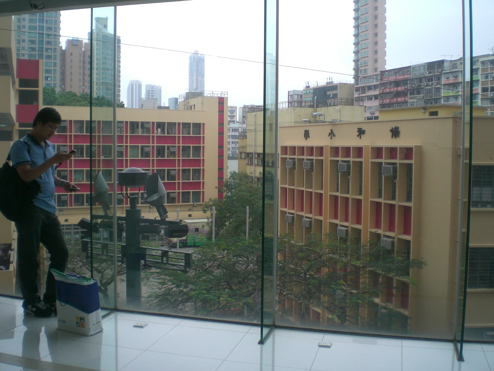 旺角 新世紀廣場 中華基督教會協和小學